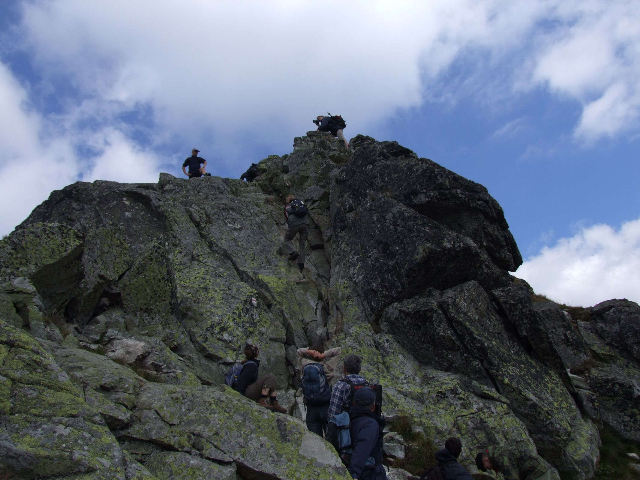 Ostrý Rohač (Ostry Rohacz) - West Tatra Mountains